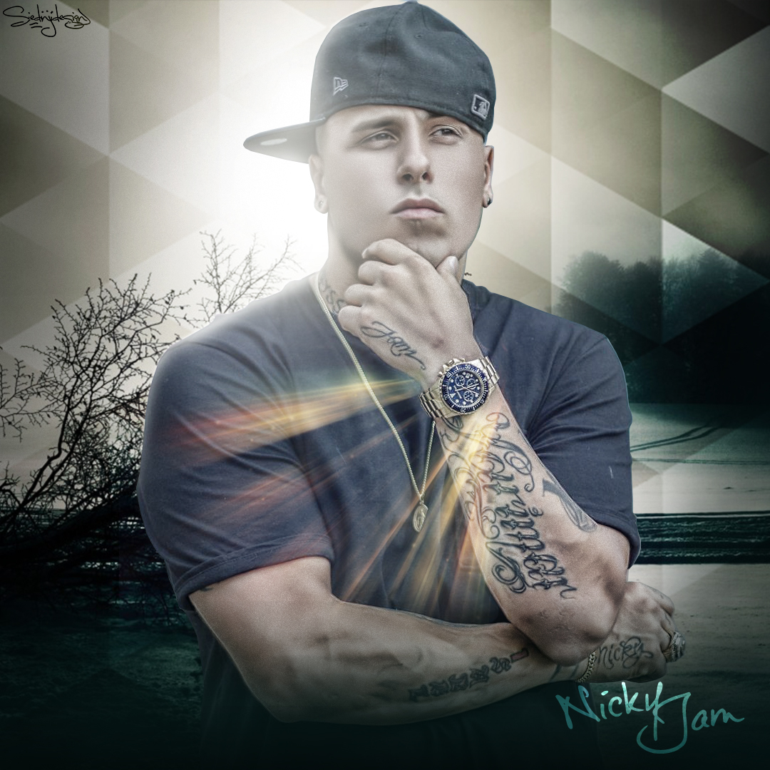 Nicky Jam